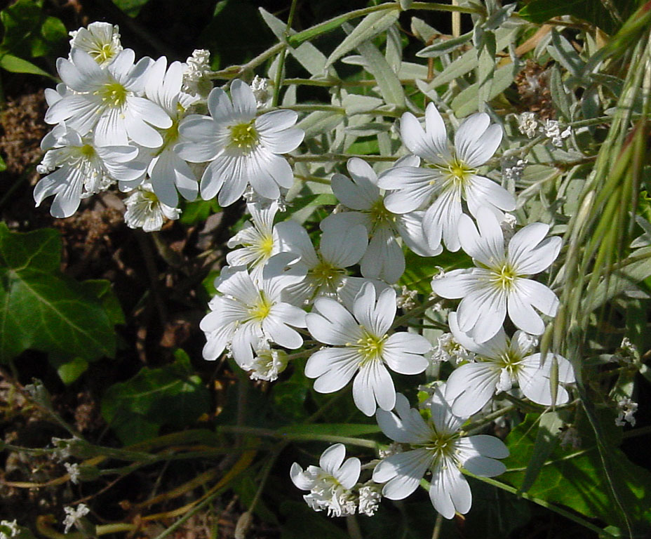 Snow-in-summer